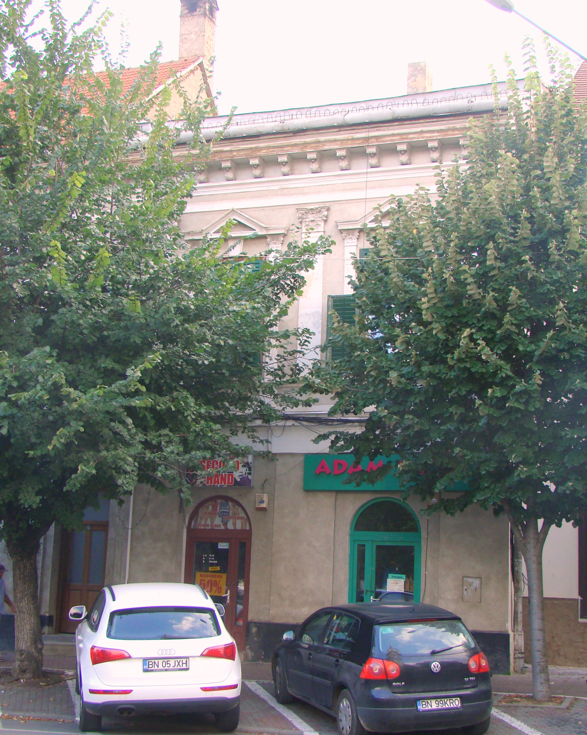 House, historic monument, in Bistrița, Piața Centrală 12